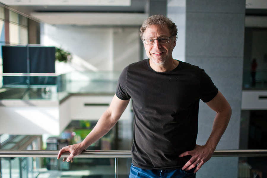 portrait of Leonard Mlodinow on TEDx Bratislava 2012